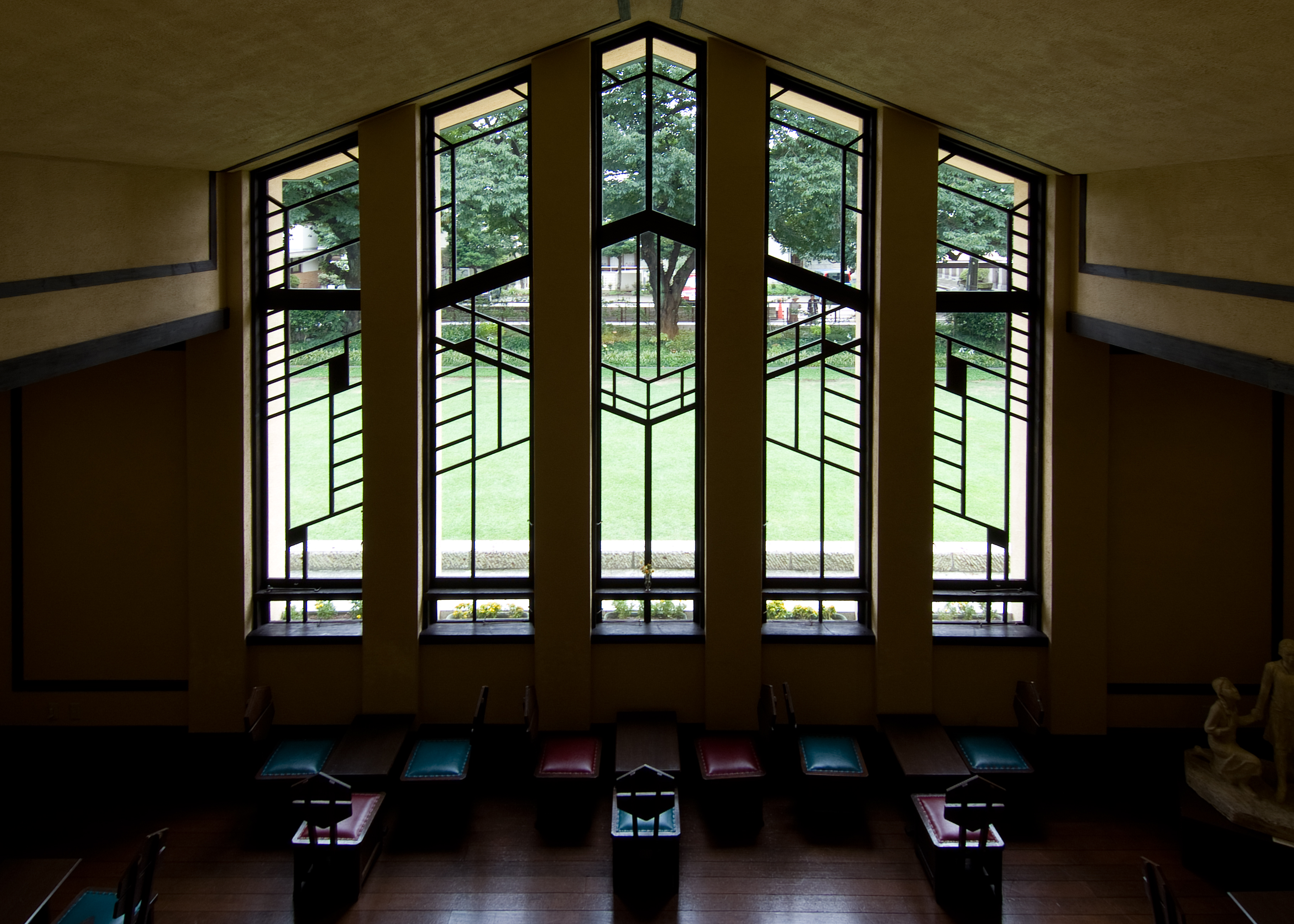 Jiyugakuen Myonichikan (the "House of Tomorrow"), at Ikebukuro Tokyo Japan, designed by Frank Lloyd Wright in 1926.